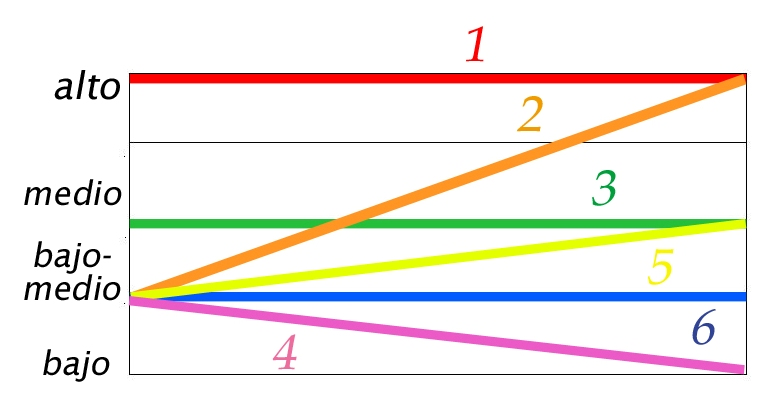 graphical representation of the 6 tones used in the Cantonese language.